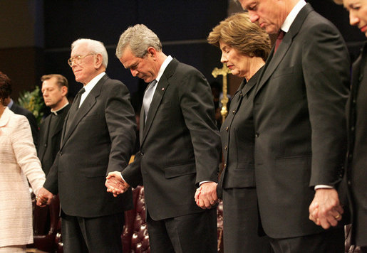 President George W. Bush and Mrs. Laura Bush are seen during a prayer holding hands with former President Bill Clinton, right, and Rev. Robert Schuller, left, at the homegoing celebration for Coretta Scott King, Tuesday, Feb. 7, 2006 at the New Birth Missionary Church in Atlanta, Ga. White House Photo by Eric Draper